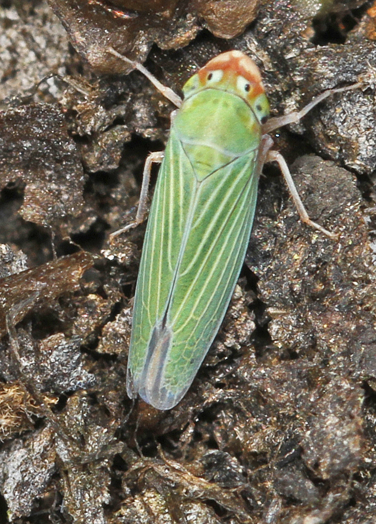 Leafhopper - Xyphon flaviceps, Rhodes Pond, North Carolina.